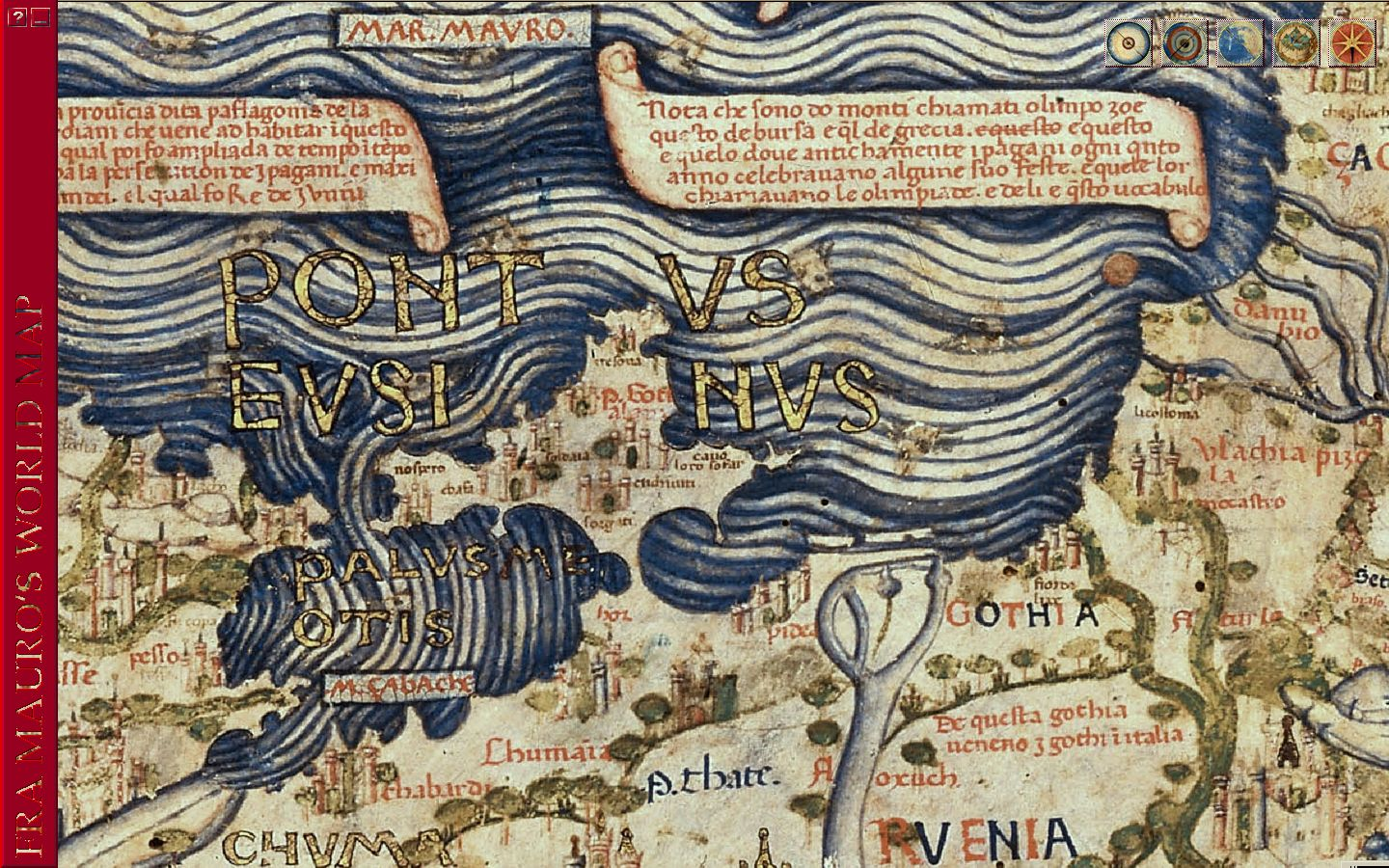 Detail of Fra Mauro's map, showing North-West coasts of Black Sea. As usualy at the maps the period, South was upstairs. At the place of modern Odessa city some settlement named Fiordelixe shown.